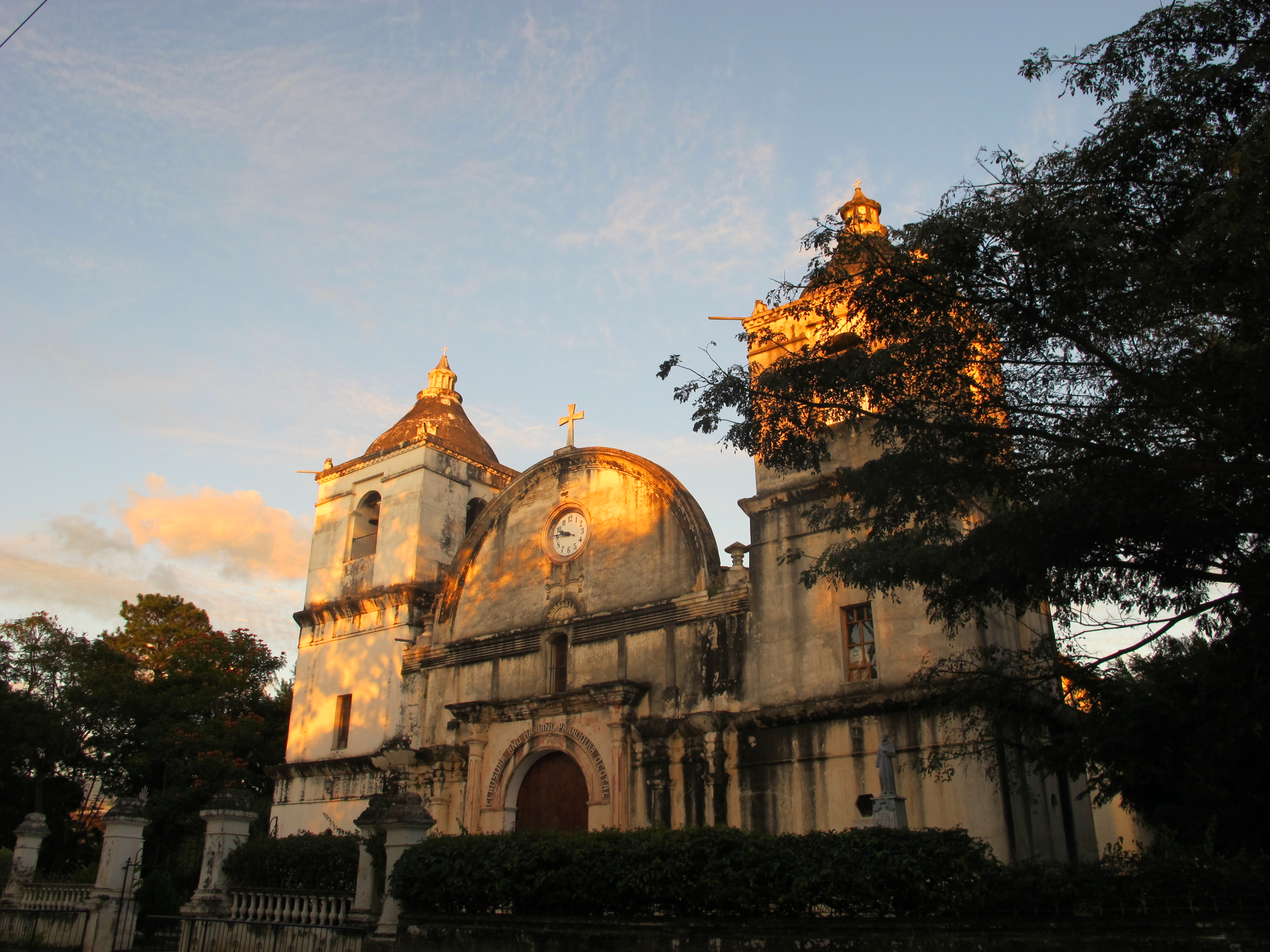 Ocotal Church